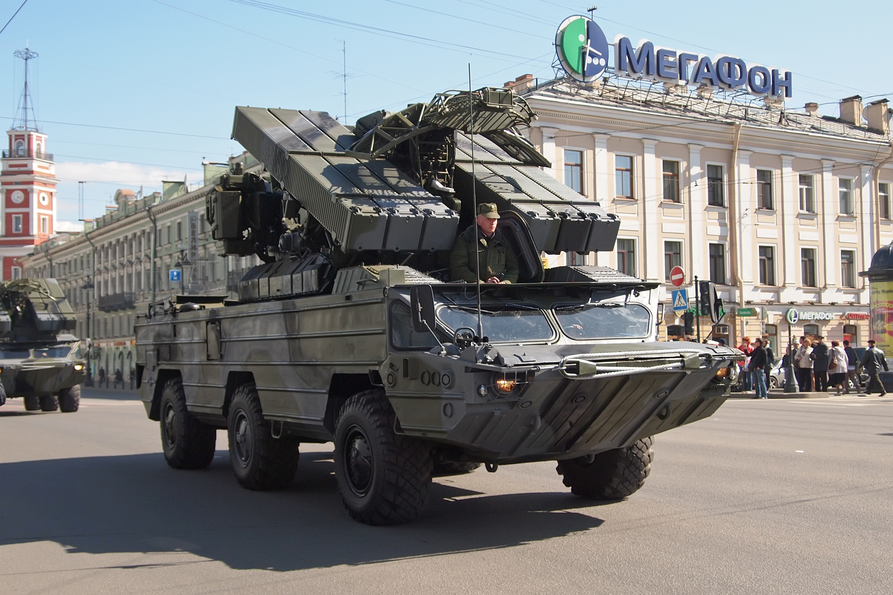 A 9K33 Osa of the Russian Army in St. Petersburg.